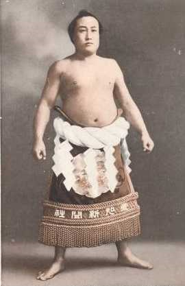 Tsunenohana Kan'ichi, the 31st Yokozuna in sumo